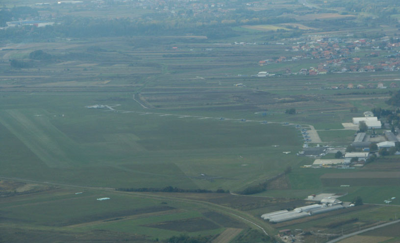 Lučko Airport from the air